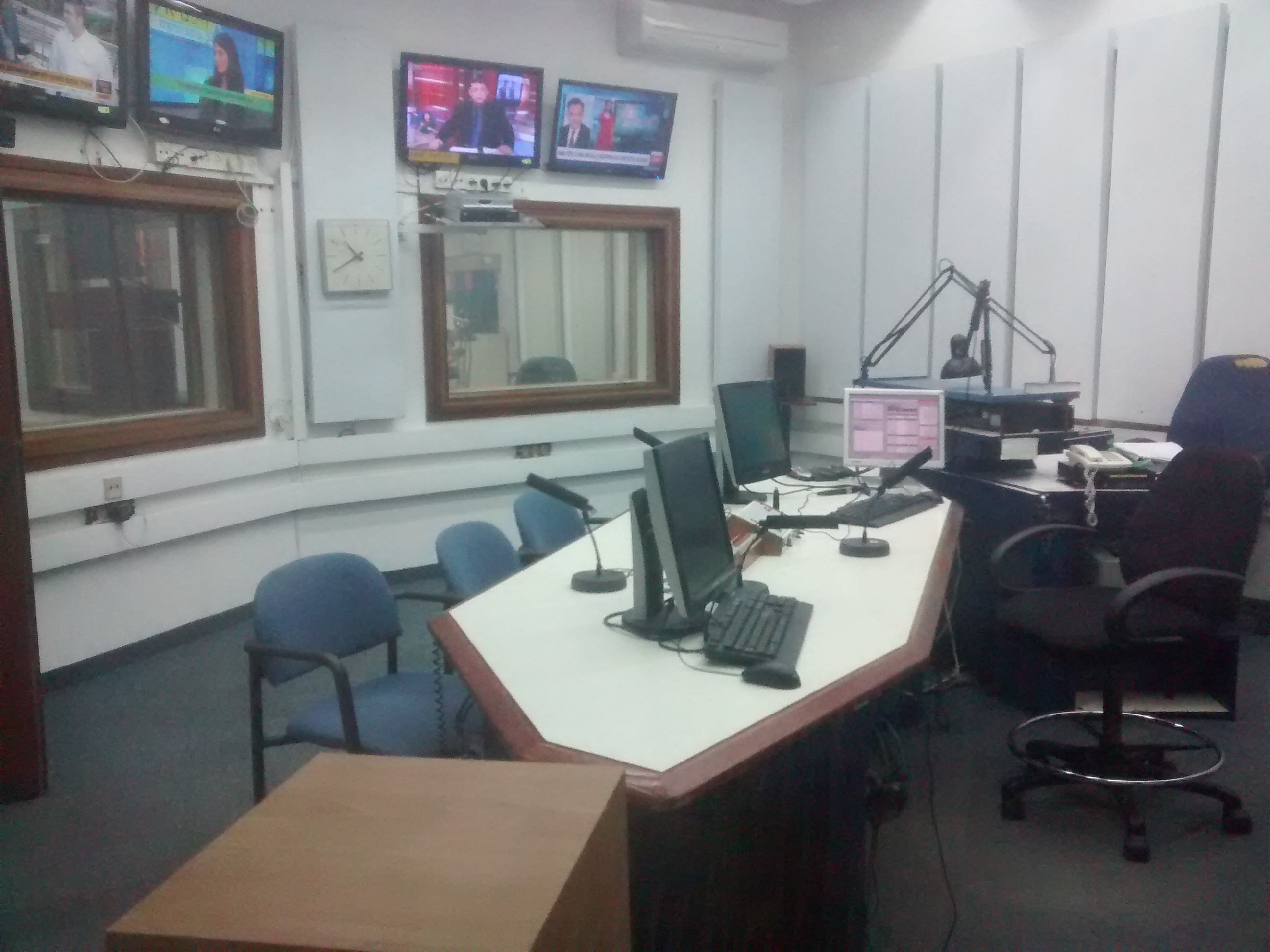 Studios and facilities of Kol Israel in Romema, Jerusalem 2016